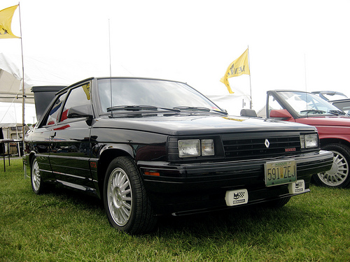 Picture of a 1987 Renault GTA Sedan